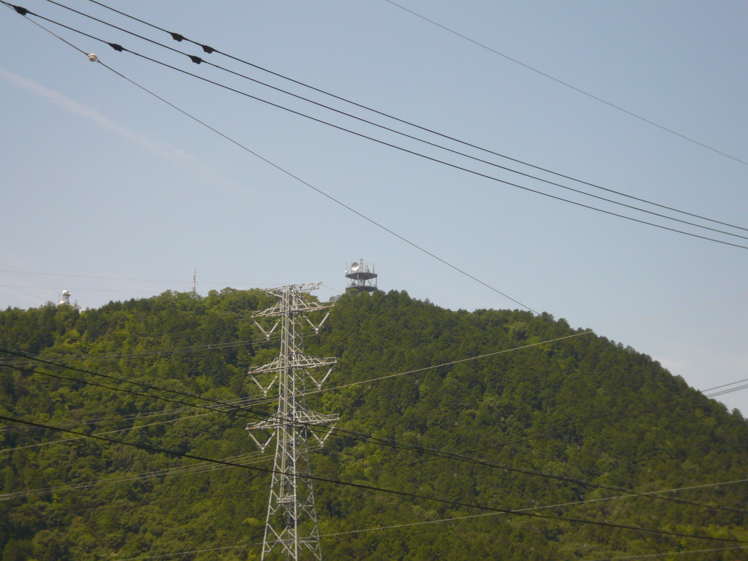 Mount Bi (Gifu) , Gifu, Gifu, Japan